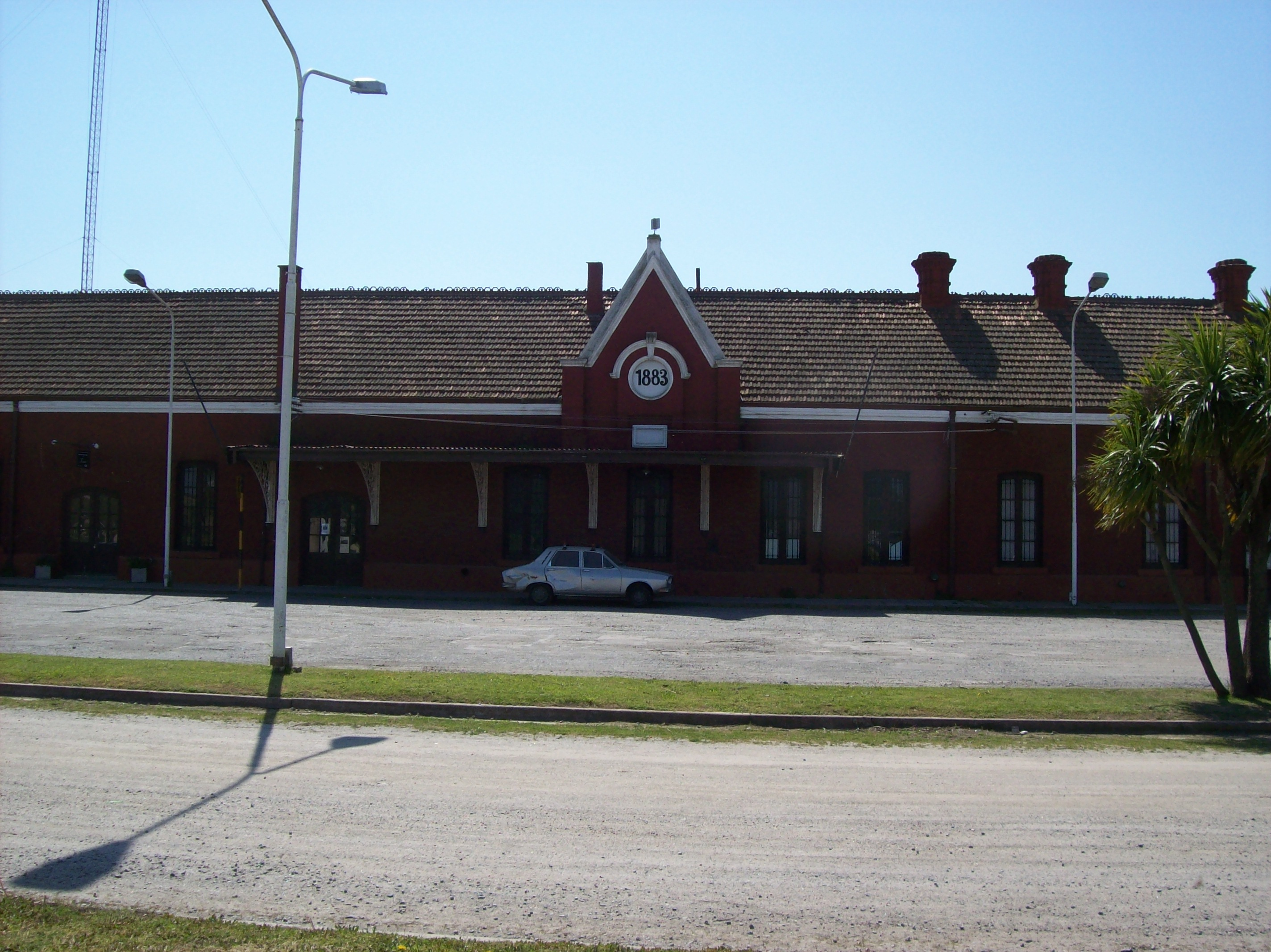 Front of Tandil train station in Buenos Aires Province, Argentina.